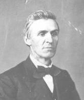 John W. Leftwich, US Representative from Tennessee